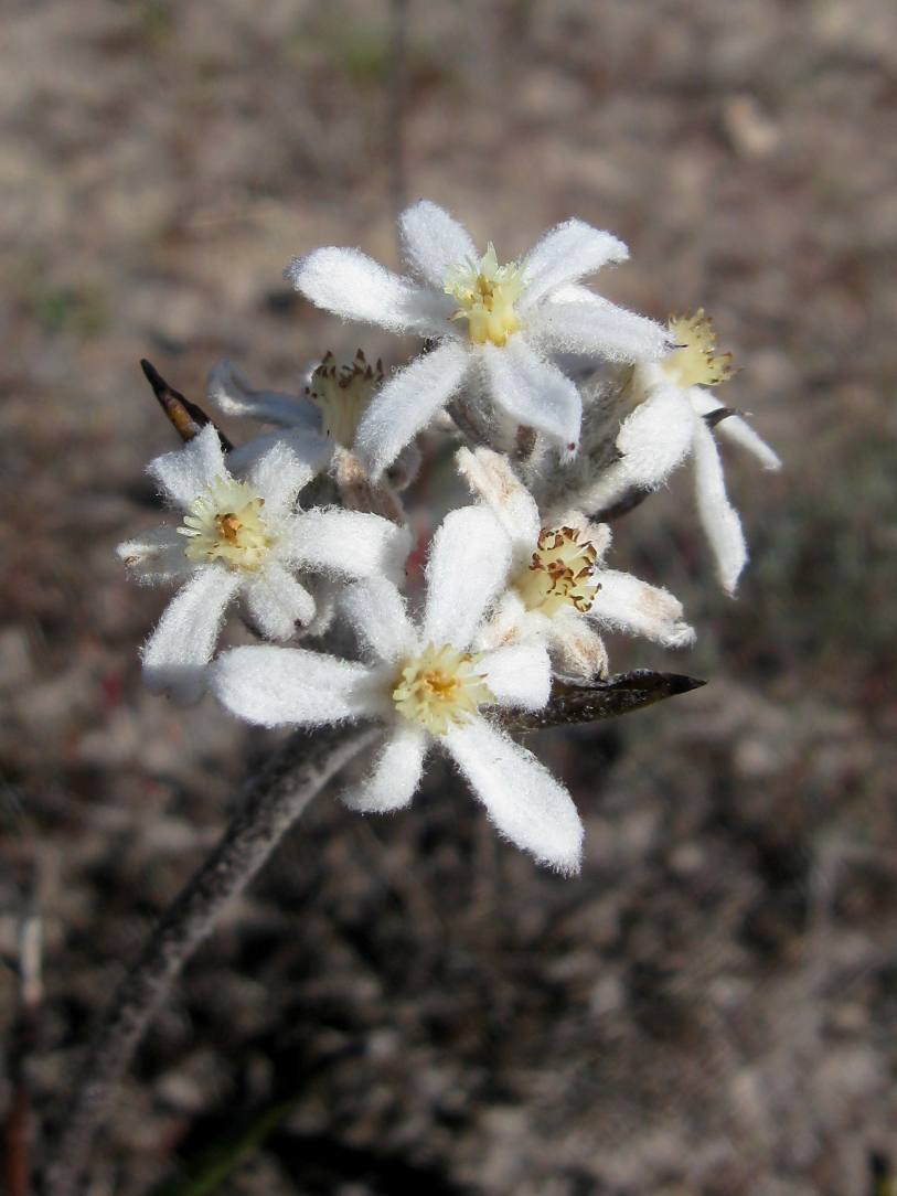 Tribonanthes sp. flower in Yule Brook Reserve, Kenwick, Western Australia.